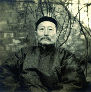 Shang Yanliu in 1946